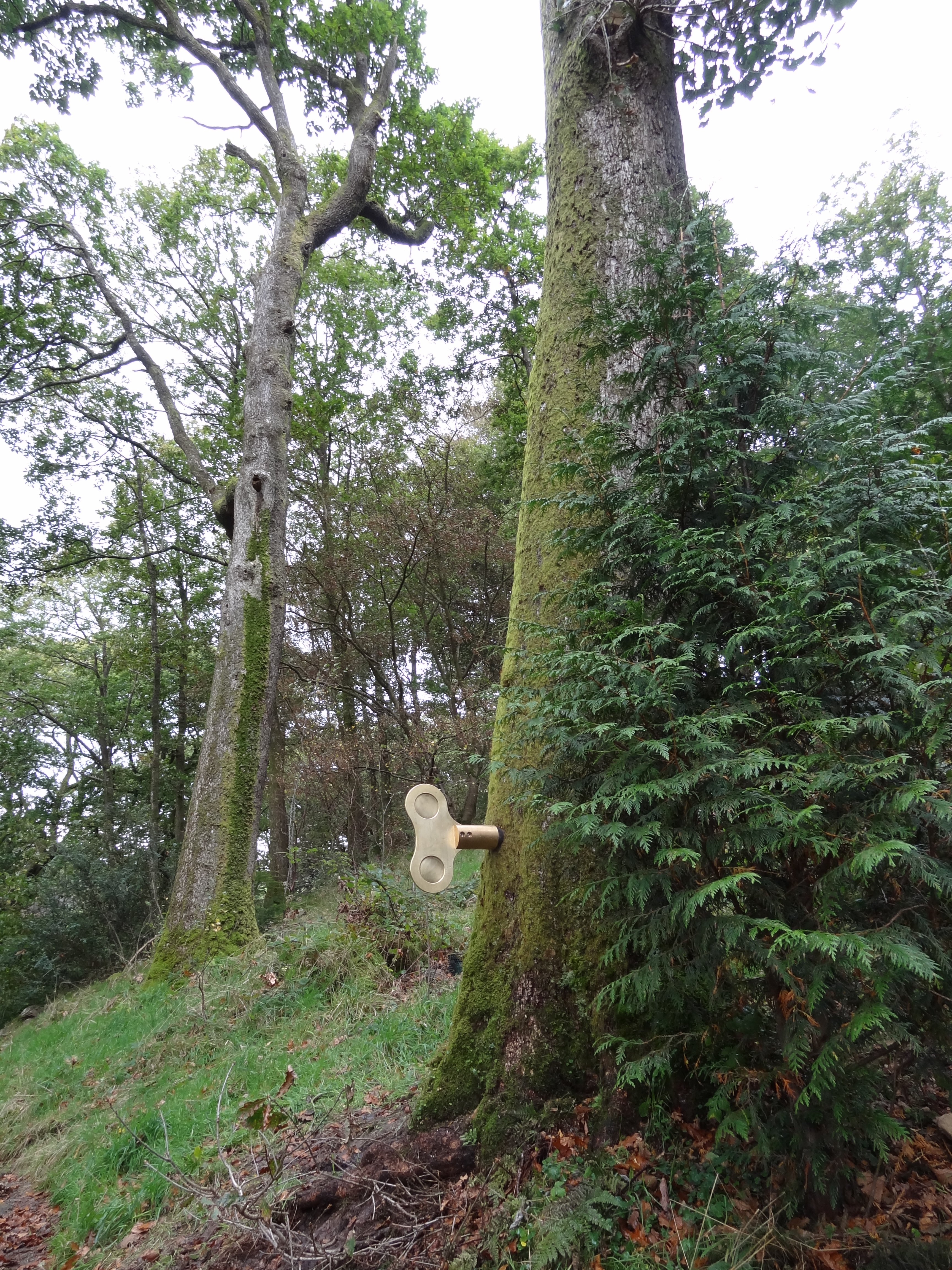 THE FOREST IS THE MYSTERIOUS LOCATION OF SECRET STORIES, HIDDEN CAMP FIRES, OF SECRET MEETINGS AND UNEXPLAINED SOUNDS In The Clockwork Forest, we have created the first chapter of an untold fairy tale. Just turn the key and the mechanical soundtrack will accompany your journey in to the forest. Commissioned by the National Forestry Commission, this installation opened on the 7th October, 2011 in Grizedale, England.